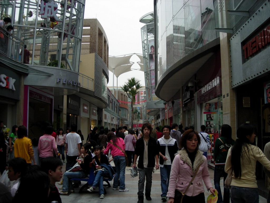 Panyu Yifa Walking Street, 番禺易发商业步行街， Photo by Memes